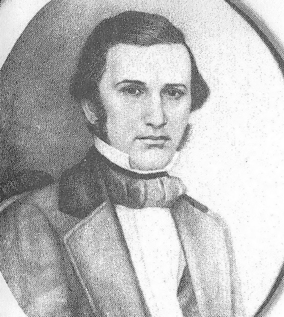 Konstantin Ushinsky